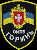 2nd motorized infantry battalion SSI (Ukraine)